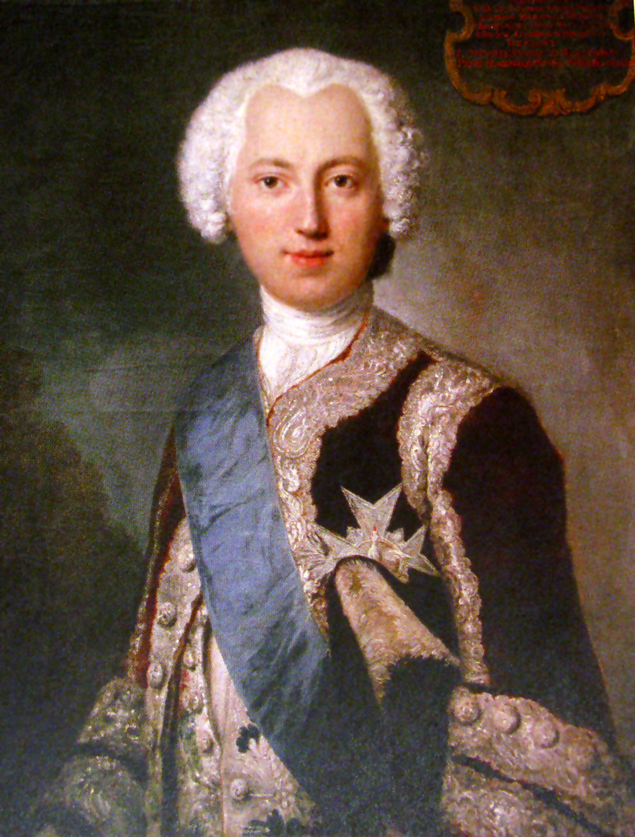 Portrait of Józef Aleksander Jabłonowski (1711–1777)